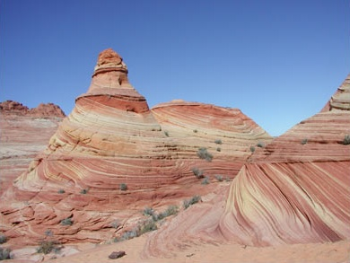 "The Wave" - a sandstone formation at the base of Coyote Buttes, Vermilion Cliffs National Monument, Arizona